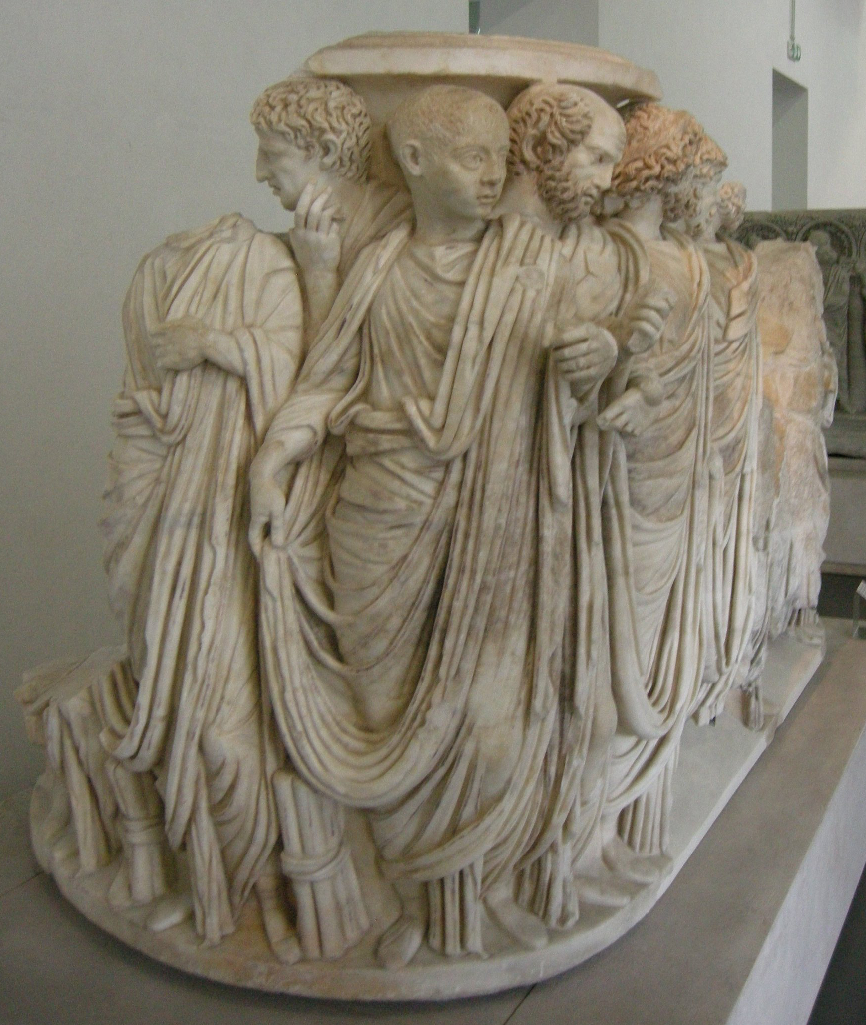 read filename